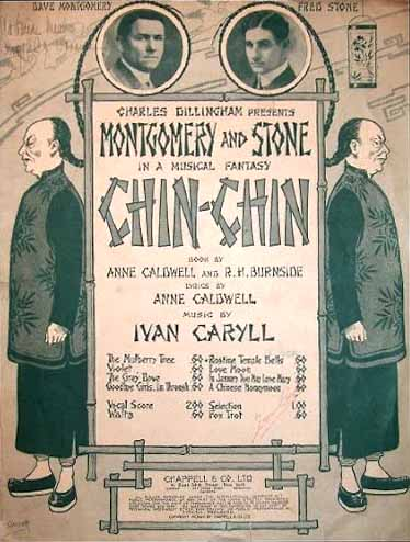 Poster for the Broadway show Chin-Chin (1914-15) starring Montgomery and Stone